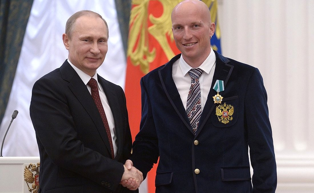 Presenting Russian Federation state decorations. Coach for the Russian Federation’s national cross-country skiing team Reto Burgermeister is awarded the Order of Friendship. March 24, 2014